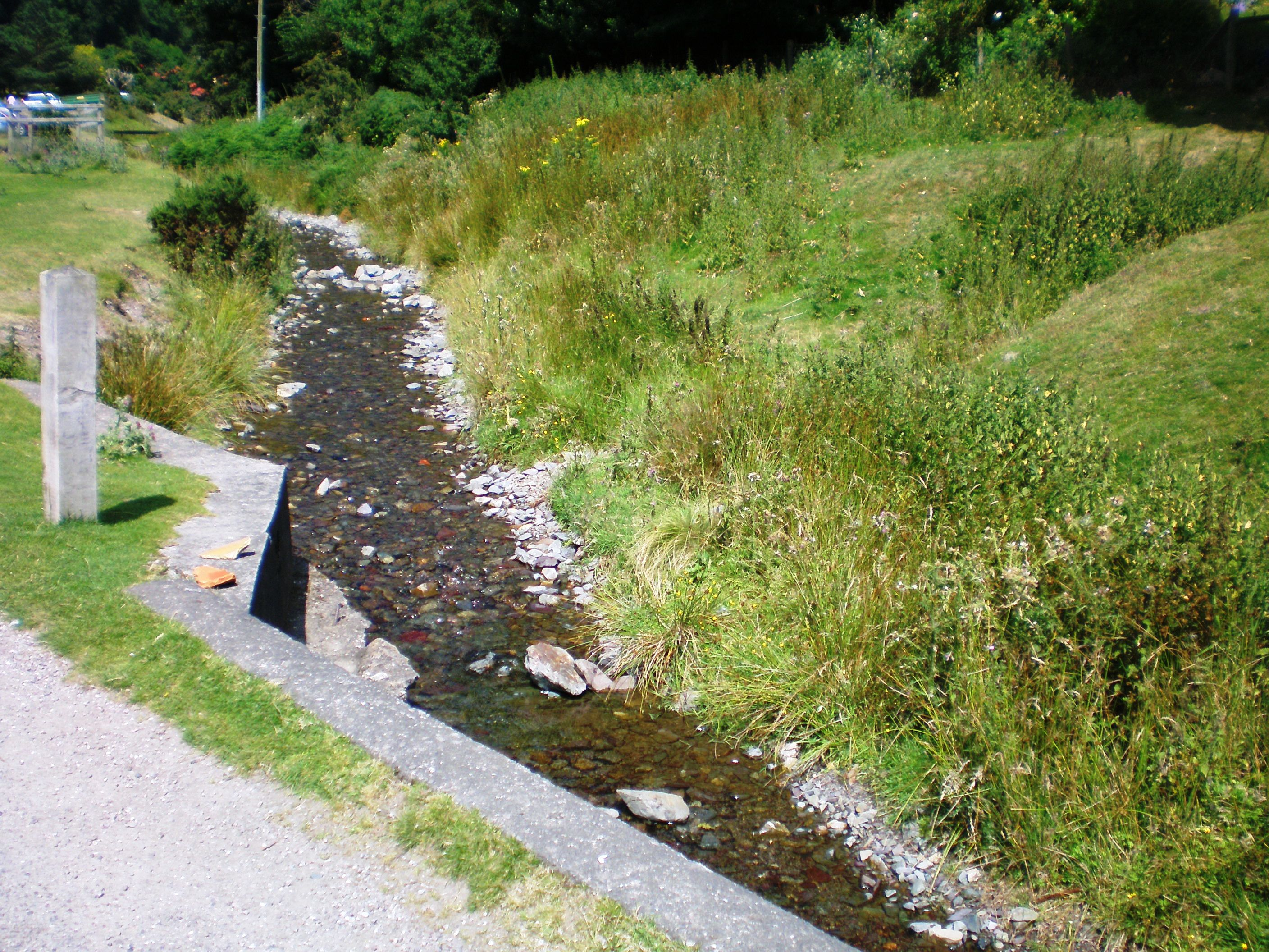 Stream in Carding Mill Valley, Shropshire